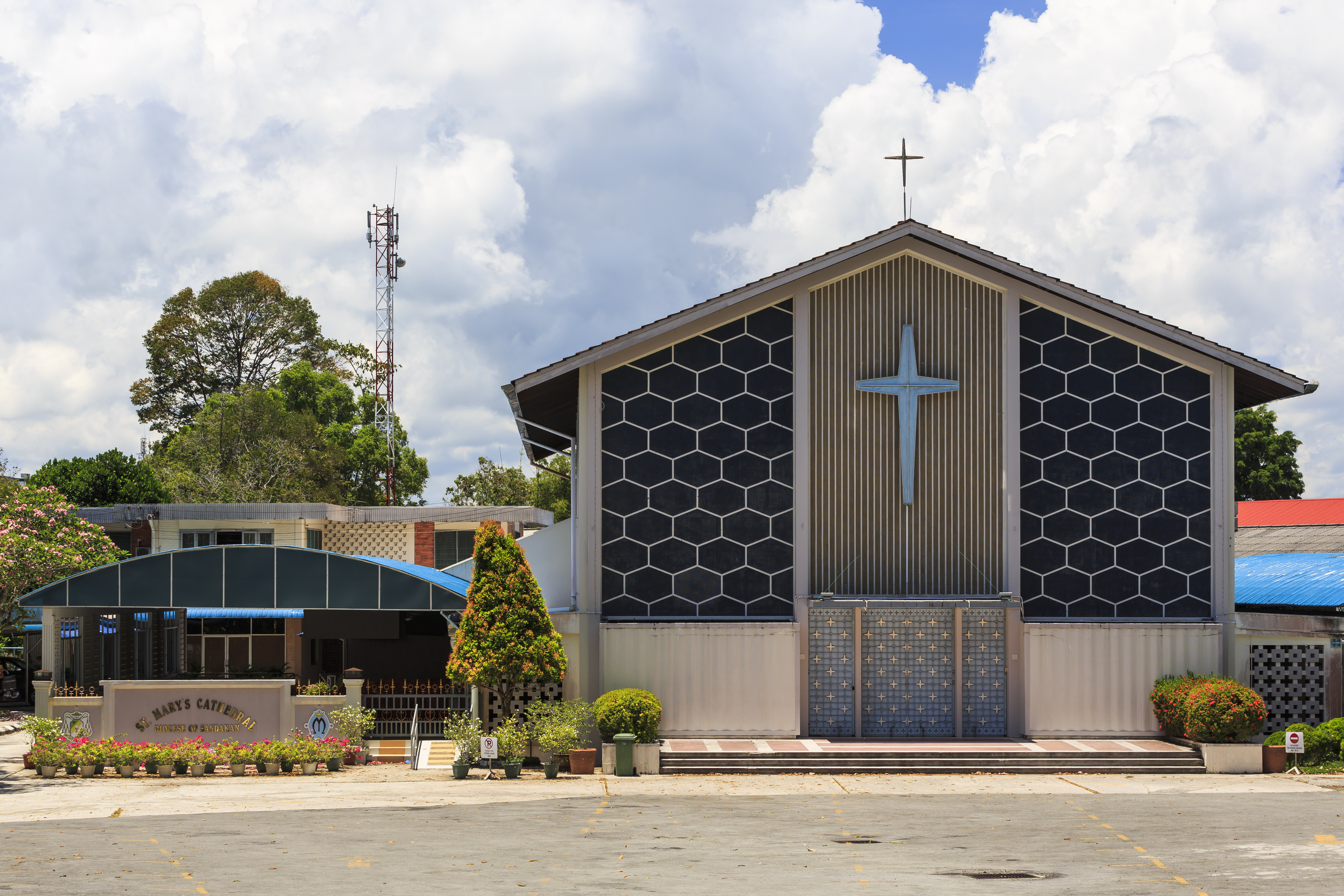 Sandakan, Sabah: St. Mary's Cathedral